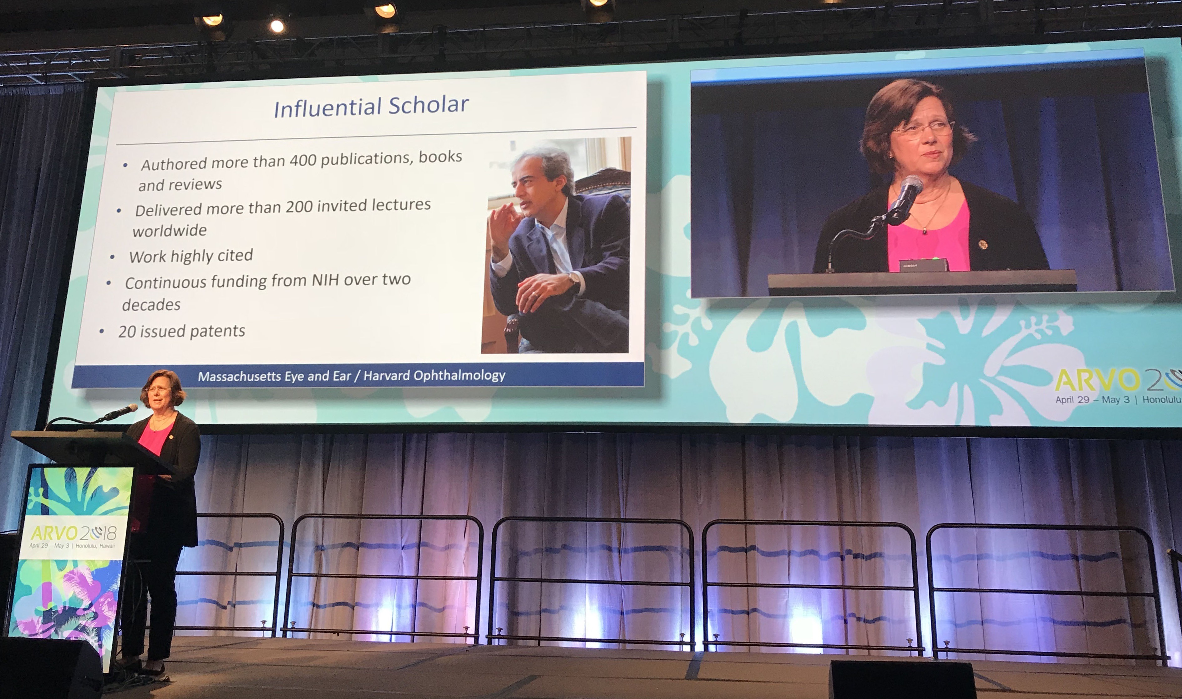 Dr.Joan Miller introducing Dr.Reza Dana for the Friedenwald Award at ARVO 2018 in Honolulu, HI